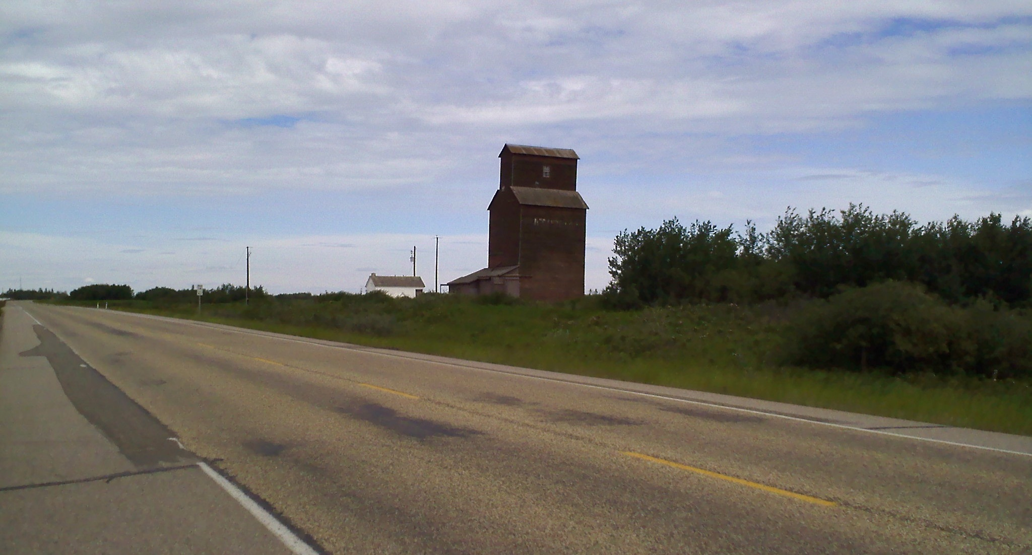 The grain elevator at Poe, Alberta, on Highway 14.